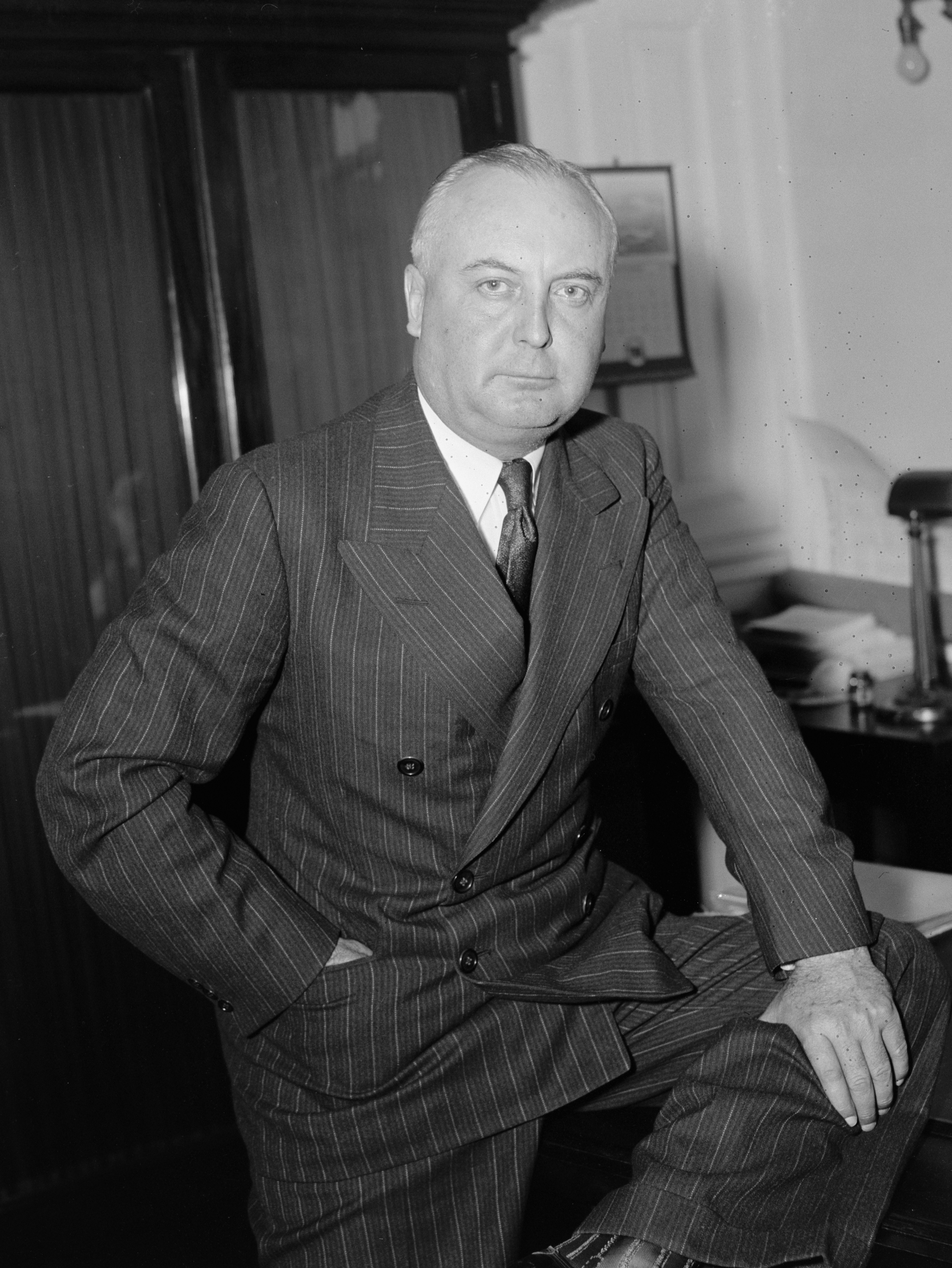 Title: Rep. Abe Murdock of Utah, member of the committee investigating the Nat'l Labor Relations Board, Sept. 1939 Abstract/medium: 1 negative : glass ; 4 x 5 in. or smaller